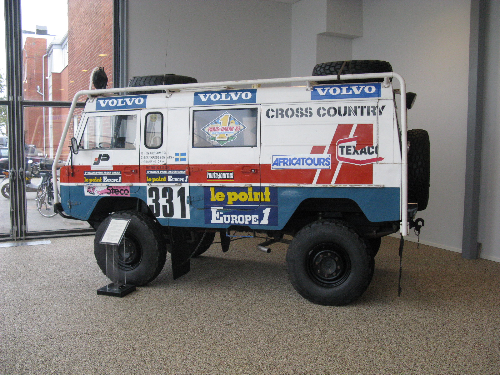 This car won its class att the 1983 Paris-Dakar Rally. From the Volvo Museum in Gothenburg